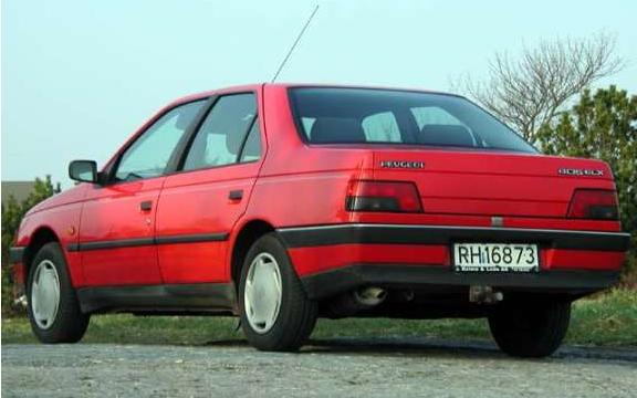 1994 Peugeot 405 viewed from rear left.